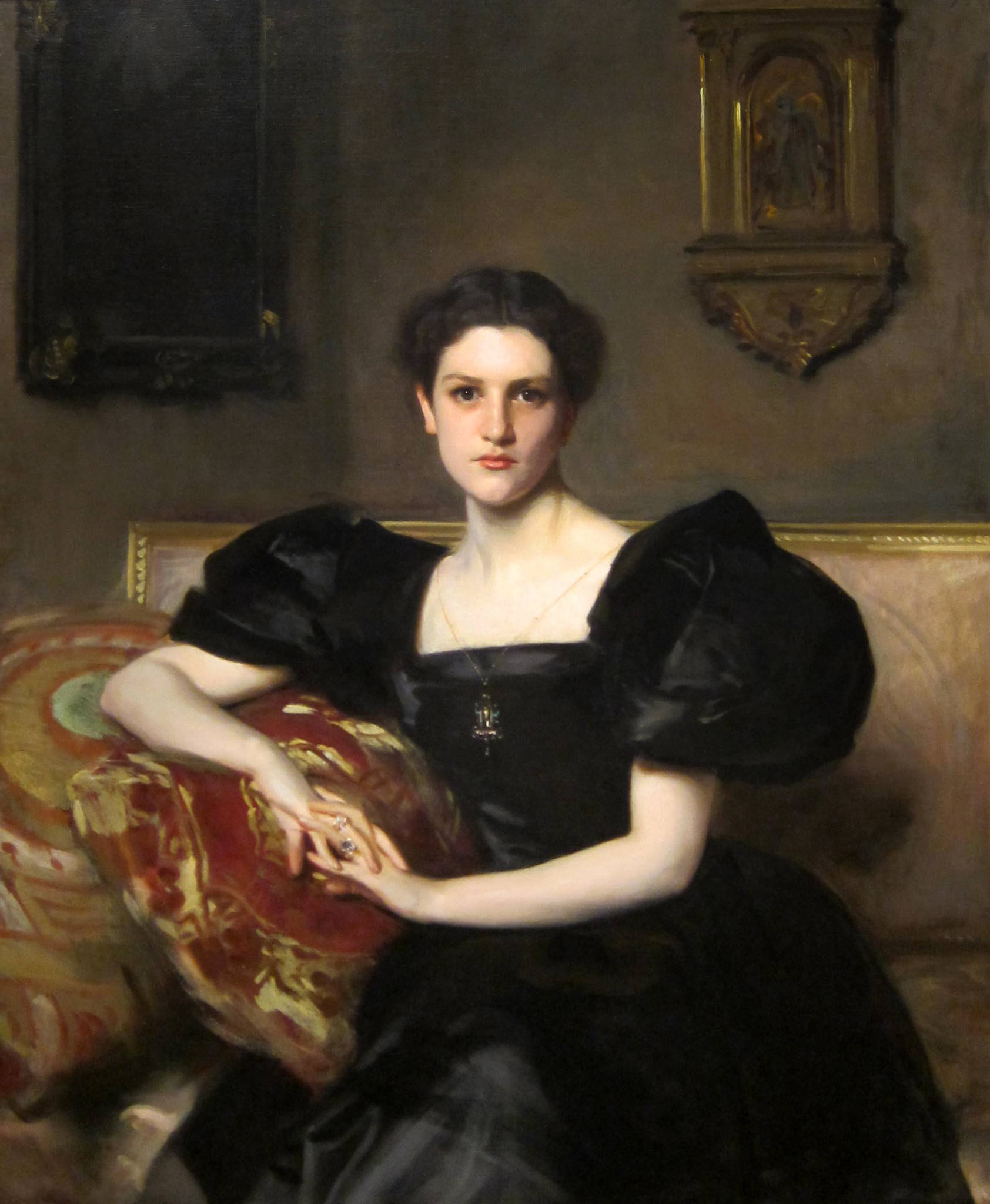 Elizabeth Astor Winthrop Chanler (1866-1937) was the daughter of U.S. Representative John Winthrop Chanler and Margaret Astor Ward. She was married to author John Jay Chapman.